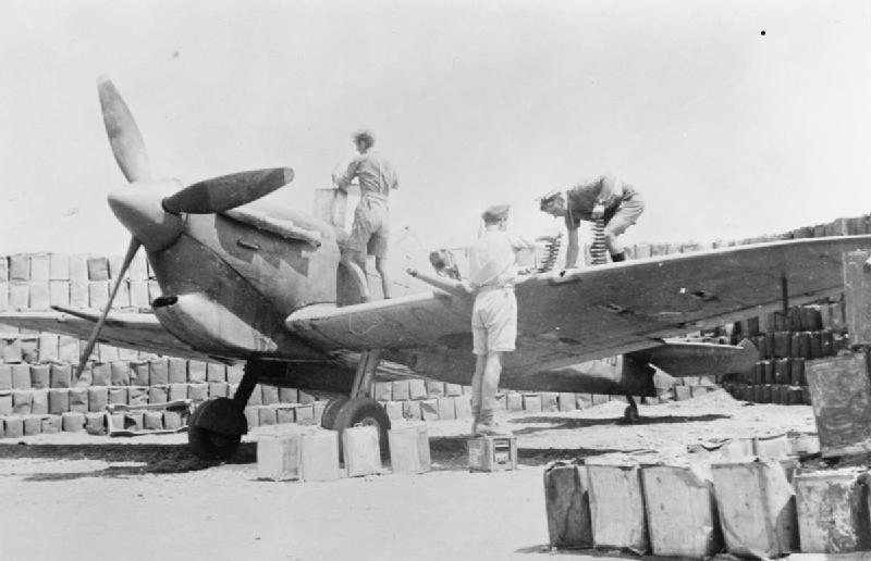 Royal Air Force- Operations in Malta, Gibraltar and the Mediterranean, 1940-1945. RAF ground crew, assisted by a soldier and a sailor, refuel and rearm a Supermarine Spitfire Mark VC(T) of No. 603 Squadron RAF, in a revetment constructed from empty fuel tins filled with sand at Ta Kali, Malta.